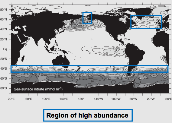 Own work